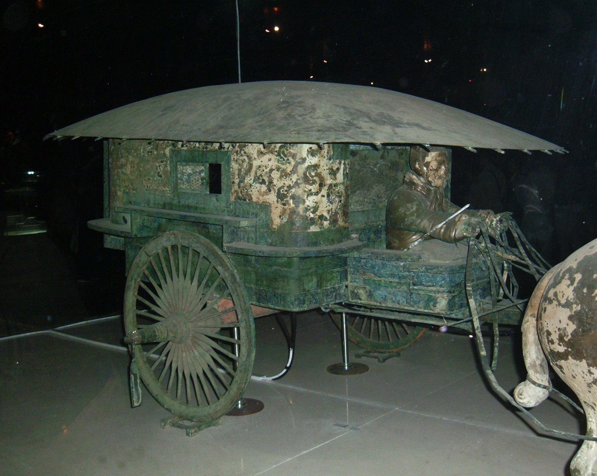 Chariot No. 2 on display at the Mausoleum of the First Qin Emperor near Xi'an, PRC.